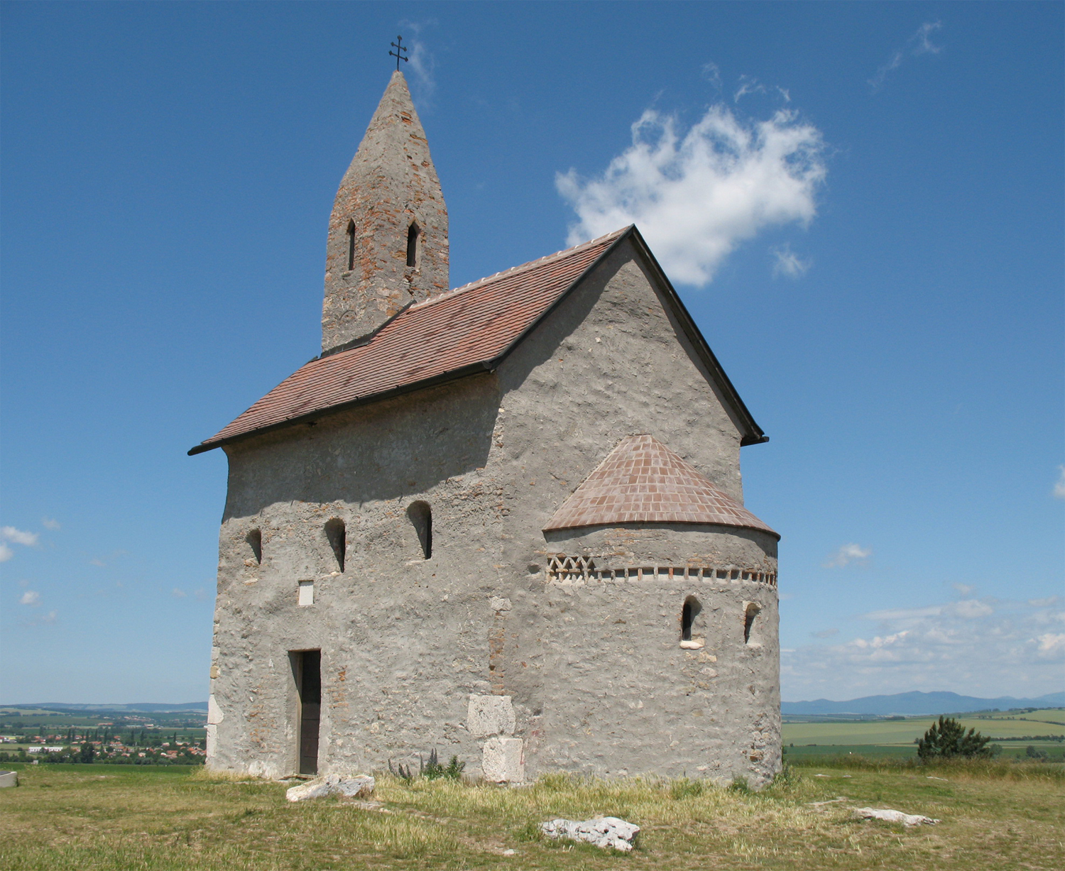 Old Church of Dražovce, part of Nitra